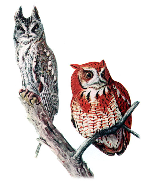 Eastern Screech Owl, Megascops asio, (Otus asio), gray phase (left) and red phase (right), offset reproduction of watercolor